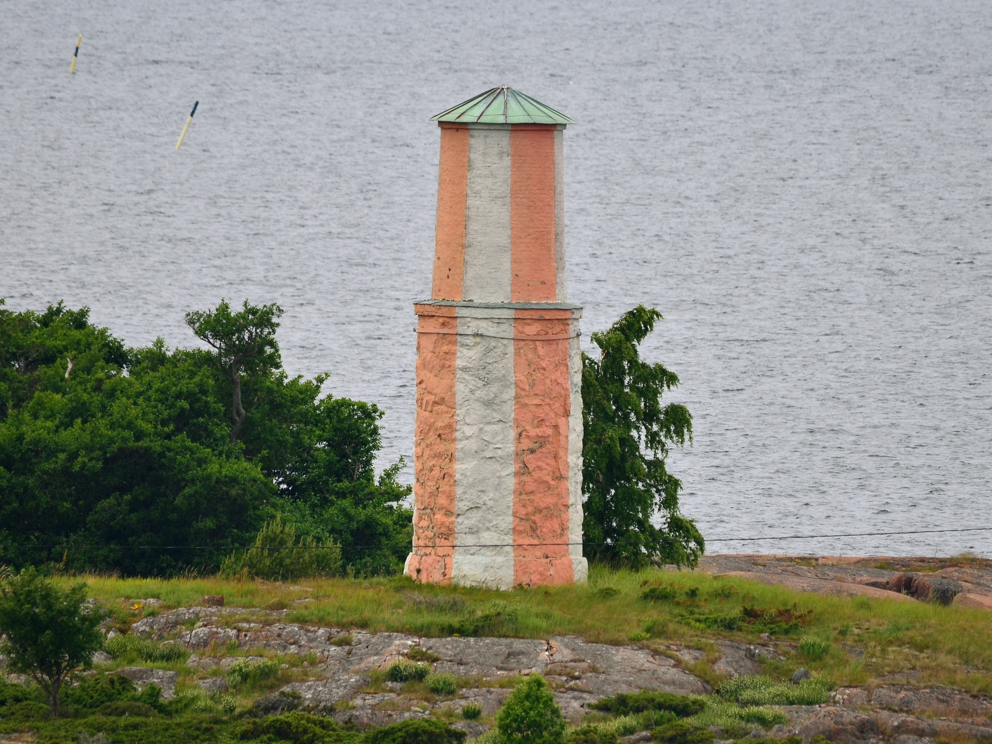 The daymark at Ledskär in Åland Islands, Finland.